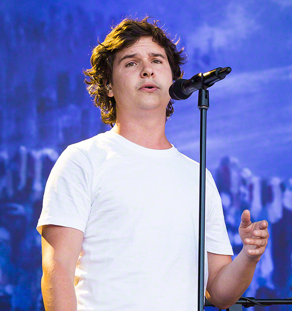 Lukas Graham at the minor stage during Stavernfestivalen in Stavern on 09. July 2016. Lineup:Lukas Graham (vocal)Unidentified (drums)Unidentified (bass)Unidentified (keyboard)Unidentified (trombone)Unidentified (baritone saxophone)Unidentified (trumpet)